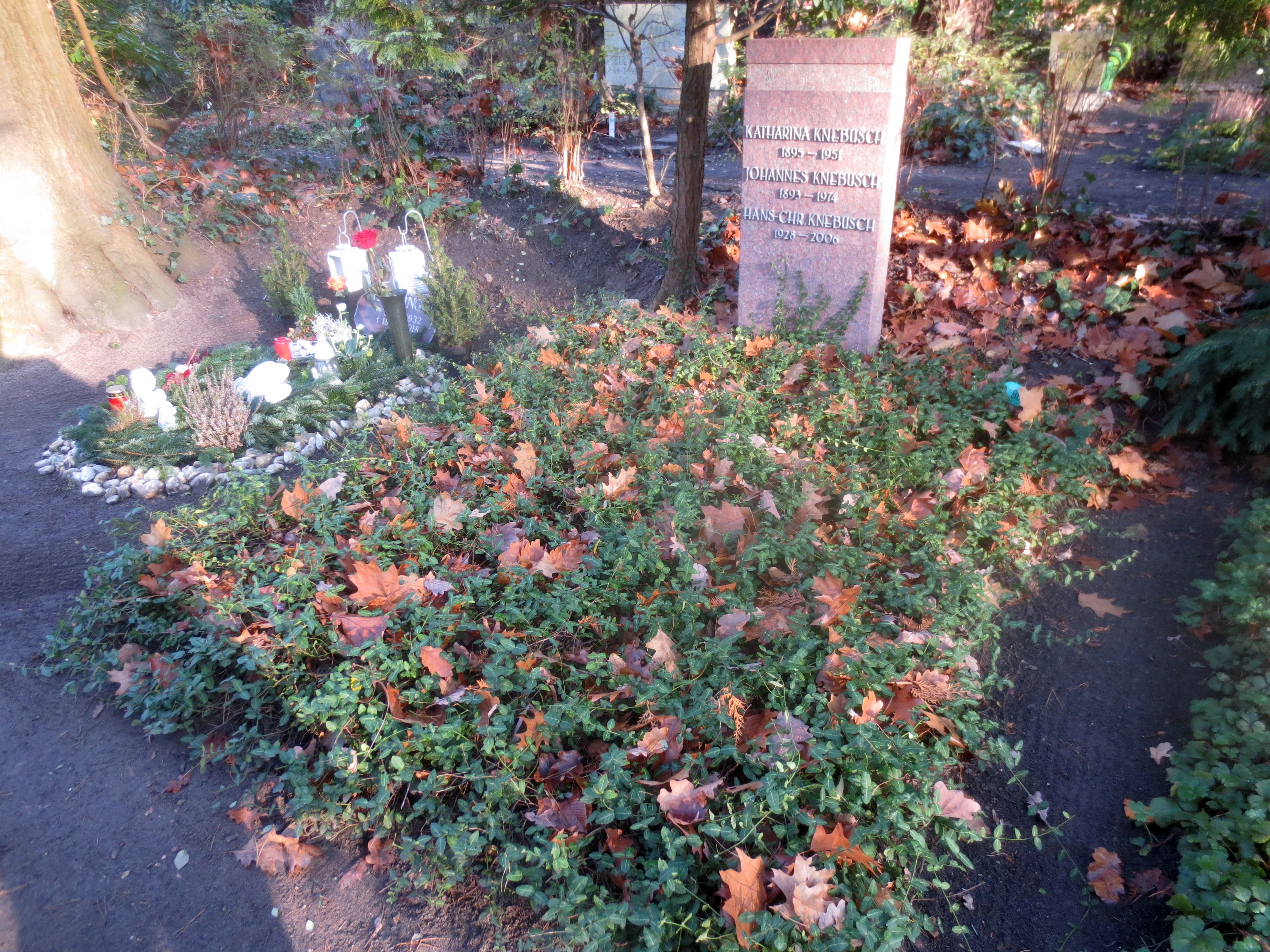 Grave of the cultural journalist Hans-Christoph Knebusch (1928-2006) on the Friedhof Heerstraße cemetery in Berlin-Westend (Grablage: II-W12-85/86).